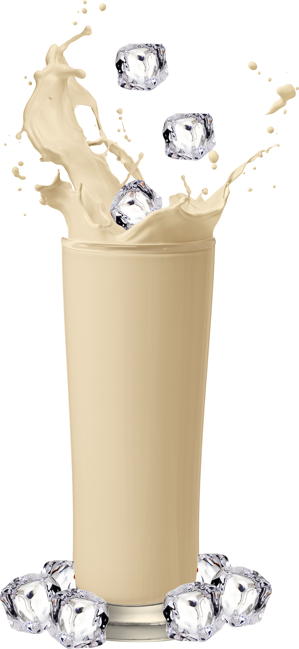 A glass of Meal Replacement